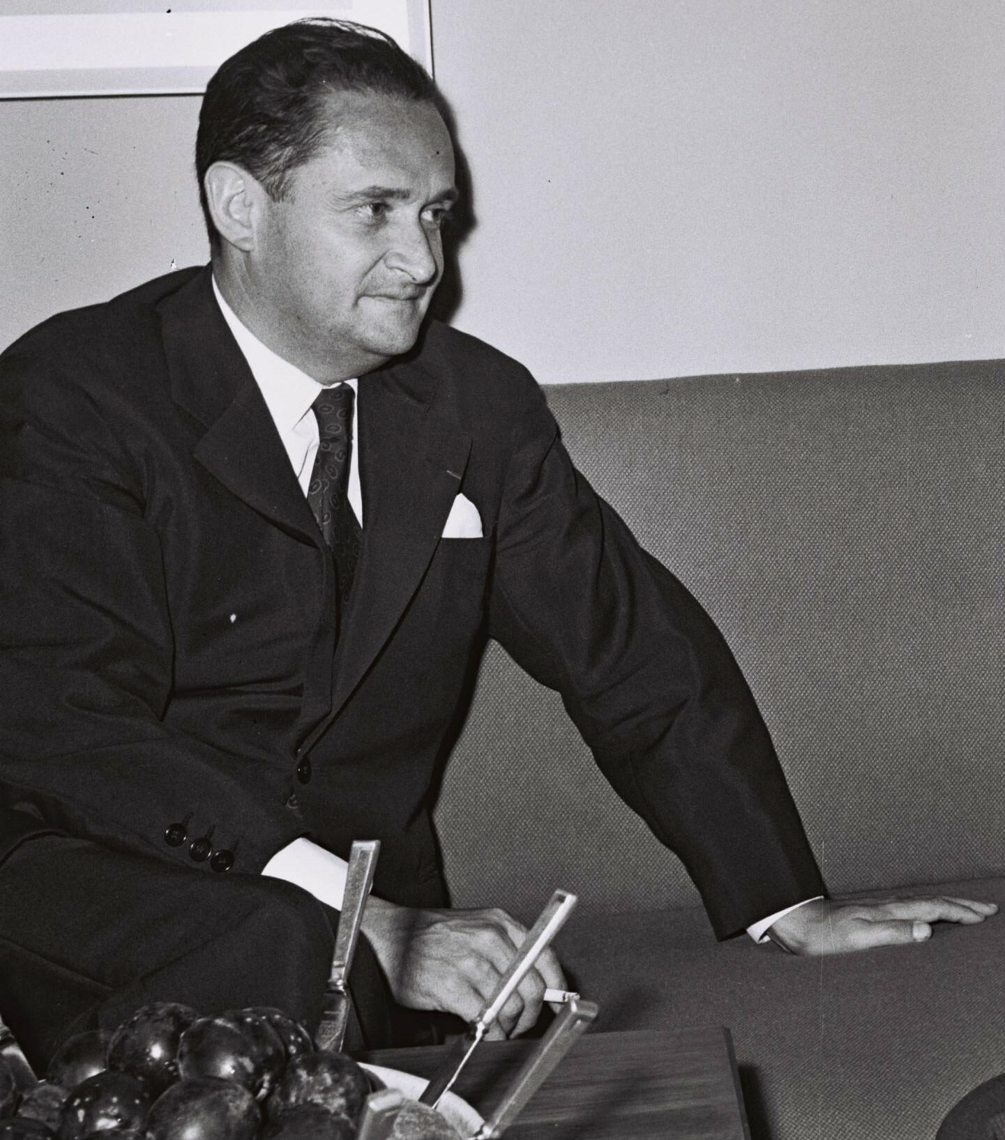 Maurice Bourgès-Maunoury meeting Finance Minister Levi Eshkol during a visit to Israel